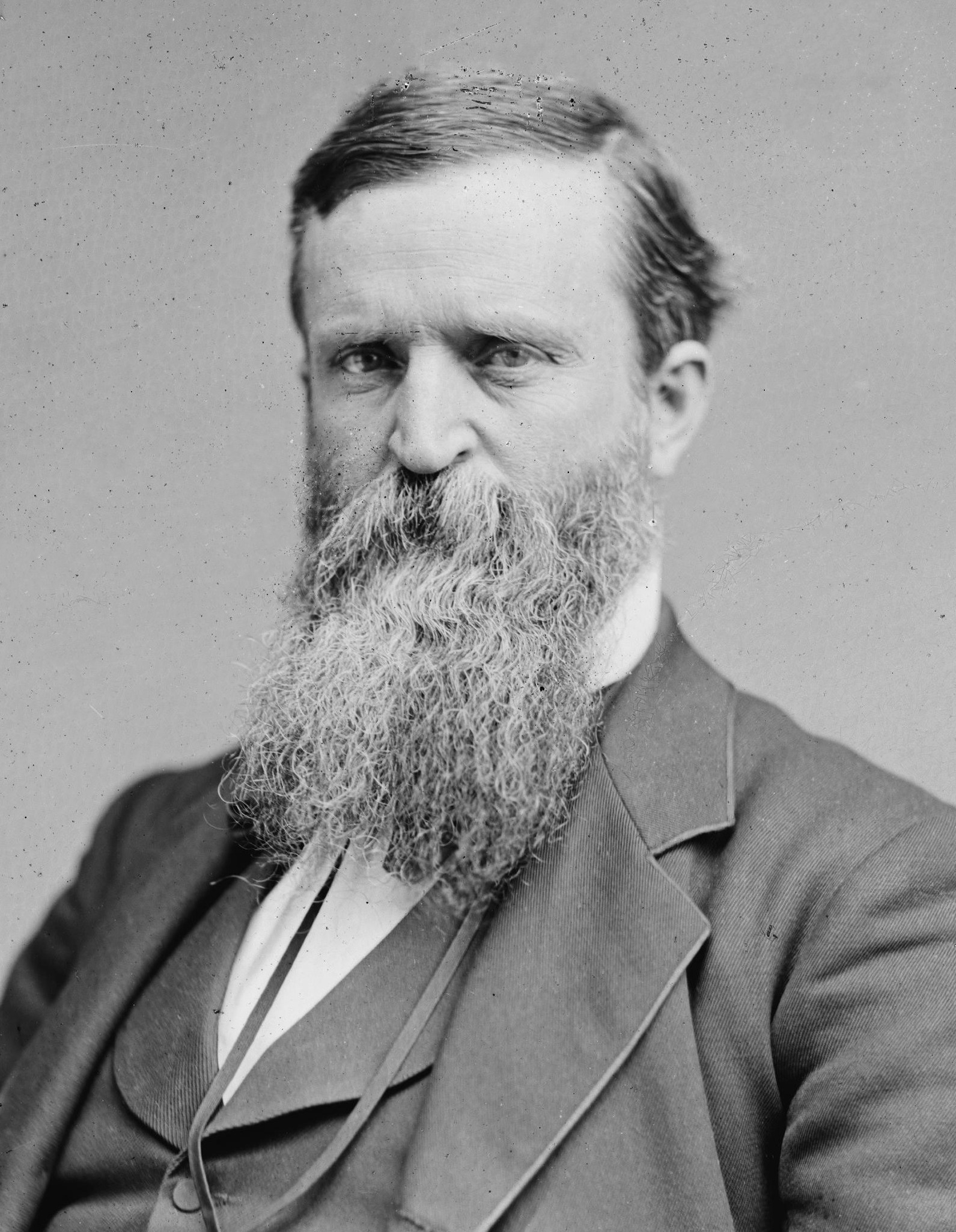 James Baird Weaver ( June 12, 1833 – February 6, 1912) was a United States politician and member of the United States House of Representatives, representing Iowa as a member of the Greenback Party. He ran for President two times on third party tickets in the late 19th century. An opponent of the gold standard and national banks, he is most famous as the presidential nominee of the Populist Party in the 1892 election.